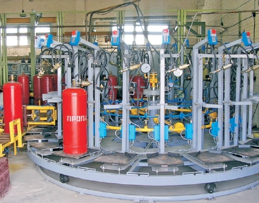 Карусельная установка наполнения баллонов на 20 постов